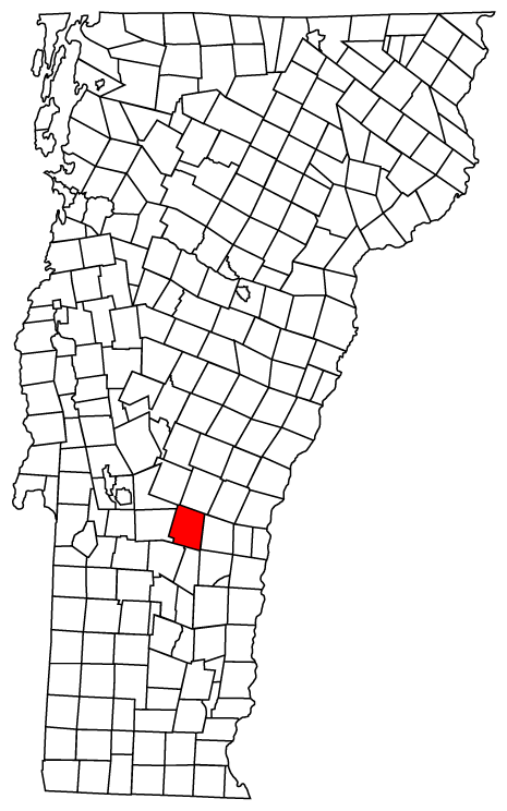 Description: Map of Vermont towns with Plymouth highlighted Source: Map created by Jared C. Benedict on 26 March 2004. Copyright: © Jared C. Benedict.